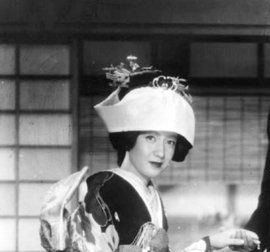 Setsuko Hara in the Japanese motion picture Late Spring (1949).